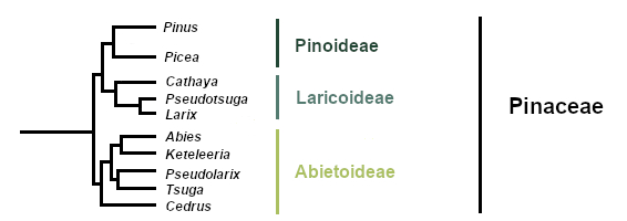 Taxonomy of the Pinaceae (subfamily)